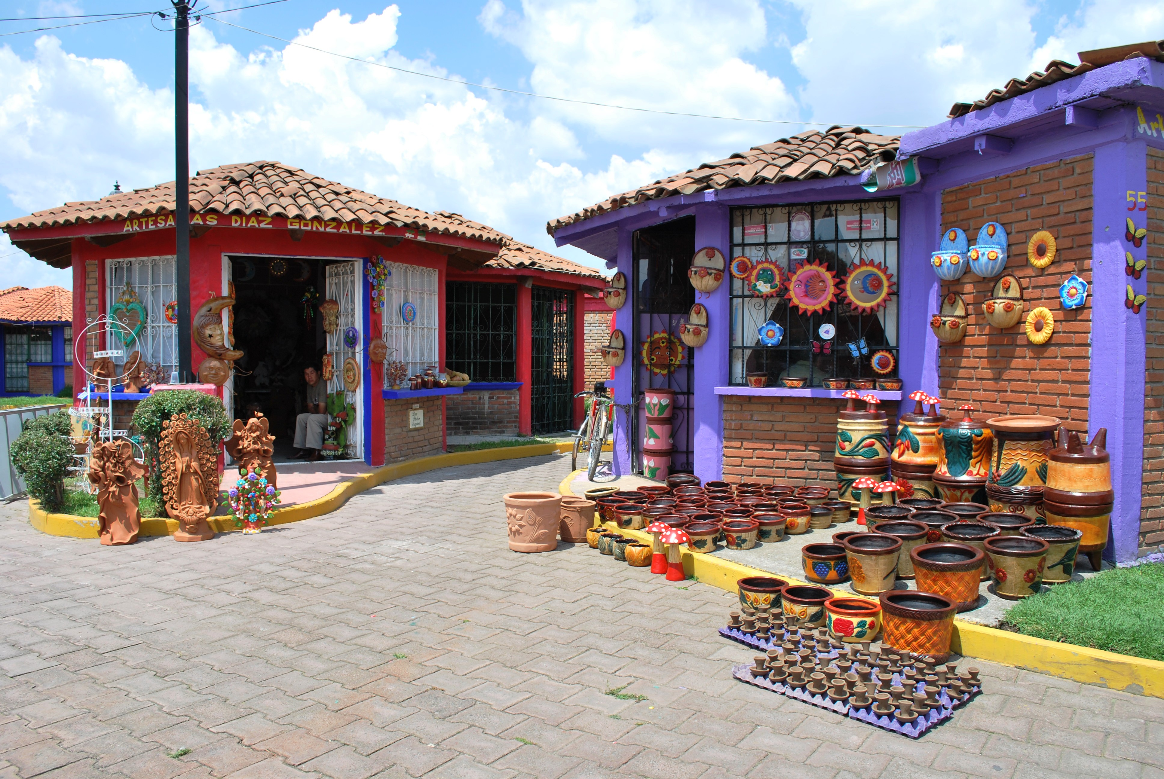 Shops in a "craft village" mostly featuring the town's known pottery. Taken in Metepec, Mexico State